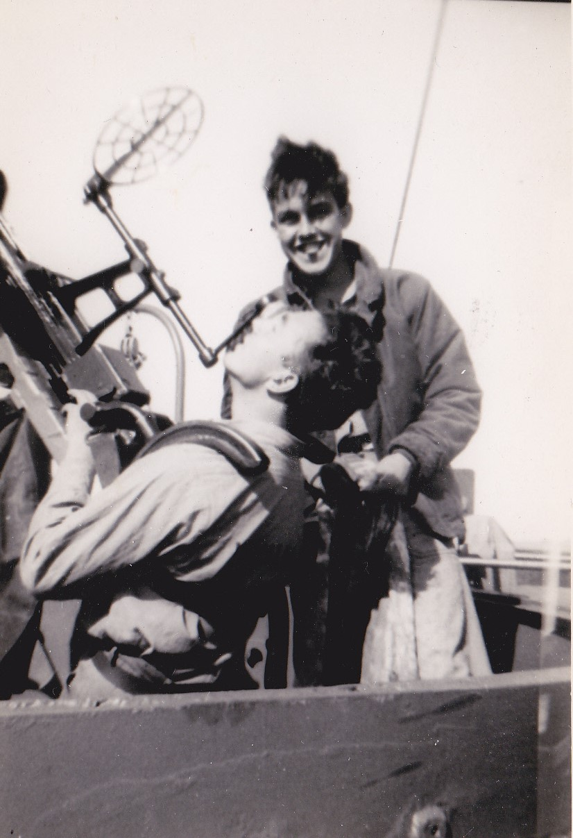 Gunman Calvin "Jiggs" O'Rourke 1925-2016 and another unknown US Navy Seaman aboard the SS Lawton B. Evans